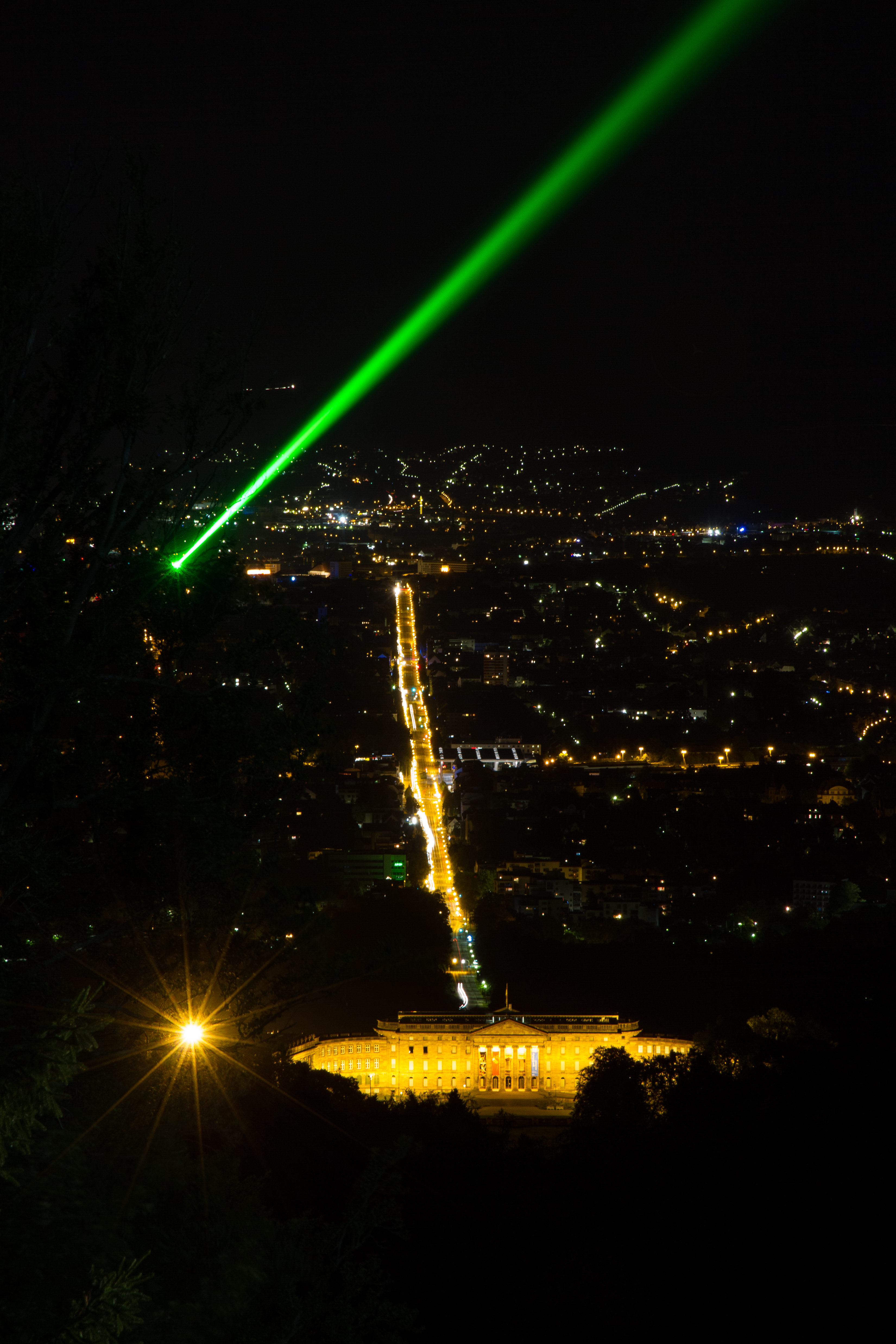 Schloss Wilhelmshöhe and Wilhelmshöher Allee by night. Depicted is also the laser installation "Laserscape Kassel".This is a photograph of an architectural monument.